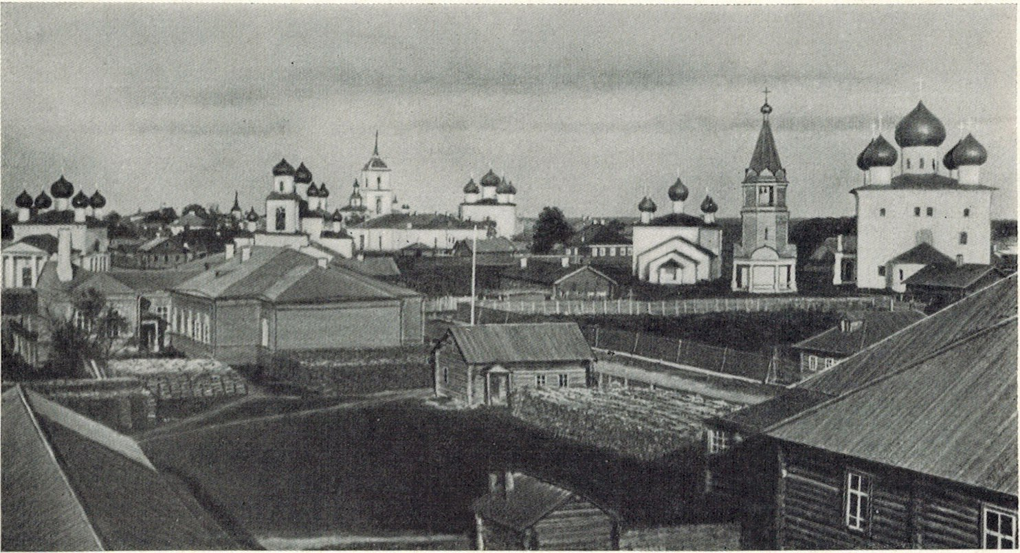 Old Torg Square in Kargopol at the beginning of 20th century